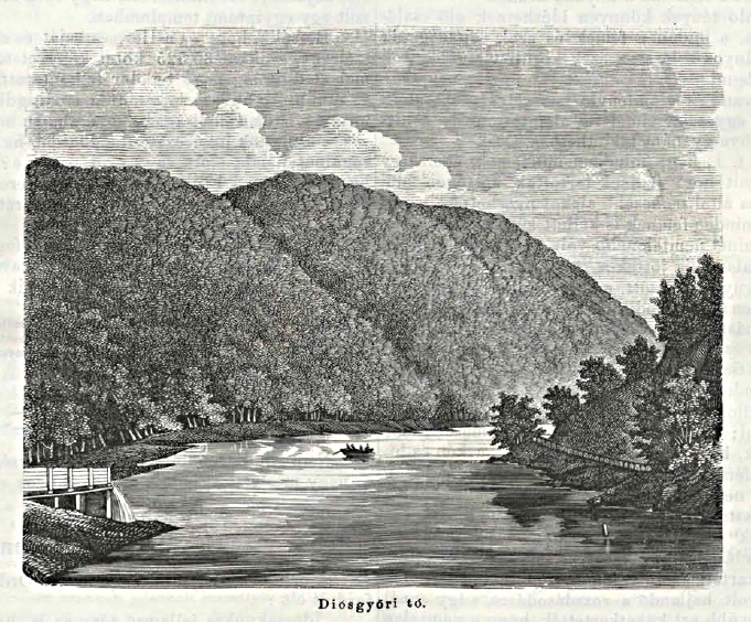 Hámor (Diósgyőr) lake, drawing in the Vasárnapi Újság (Sunday News) 1861.04.28.